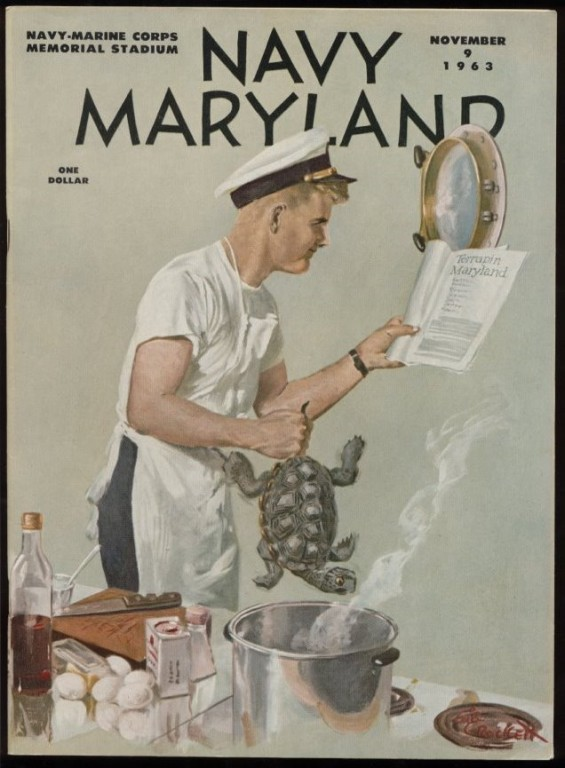 Cover of the 1963 University of Maryland–United States Naval Academy football game program